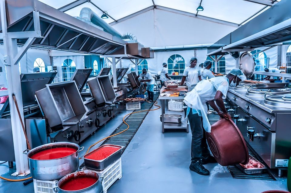 This is an image with the theme "Africa on the Move or Transport" from: Ivory Coast